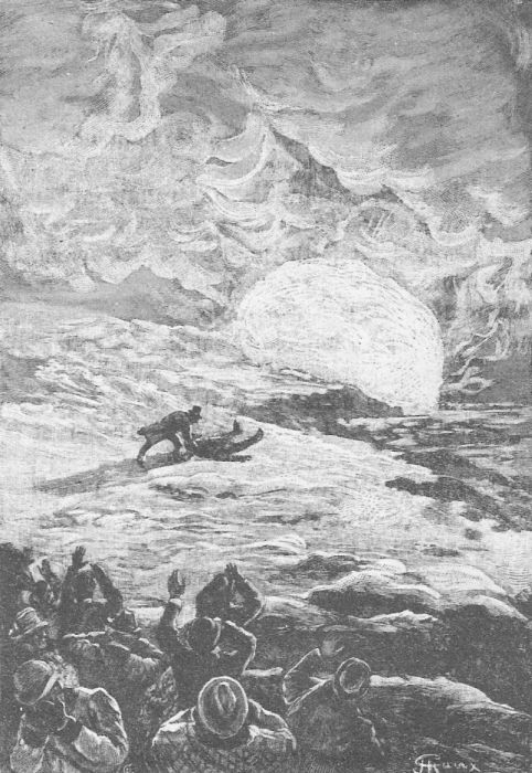 An illustration from Jules Verne's novel "The Chase of the Golden Meteor" (also published as "The Hunt for the Meteor", 1901) drawn by George Roux.